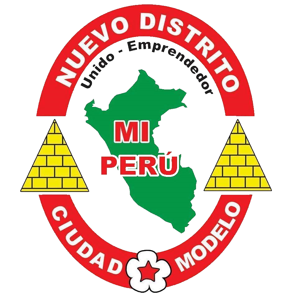 Escudo MiPerúDistrito